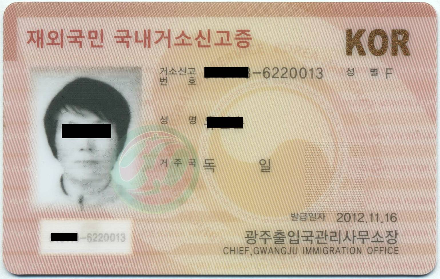 South Korean ID card (cropped, anonymized)